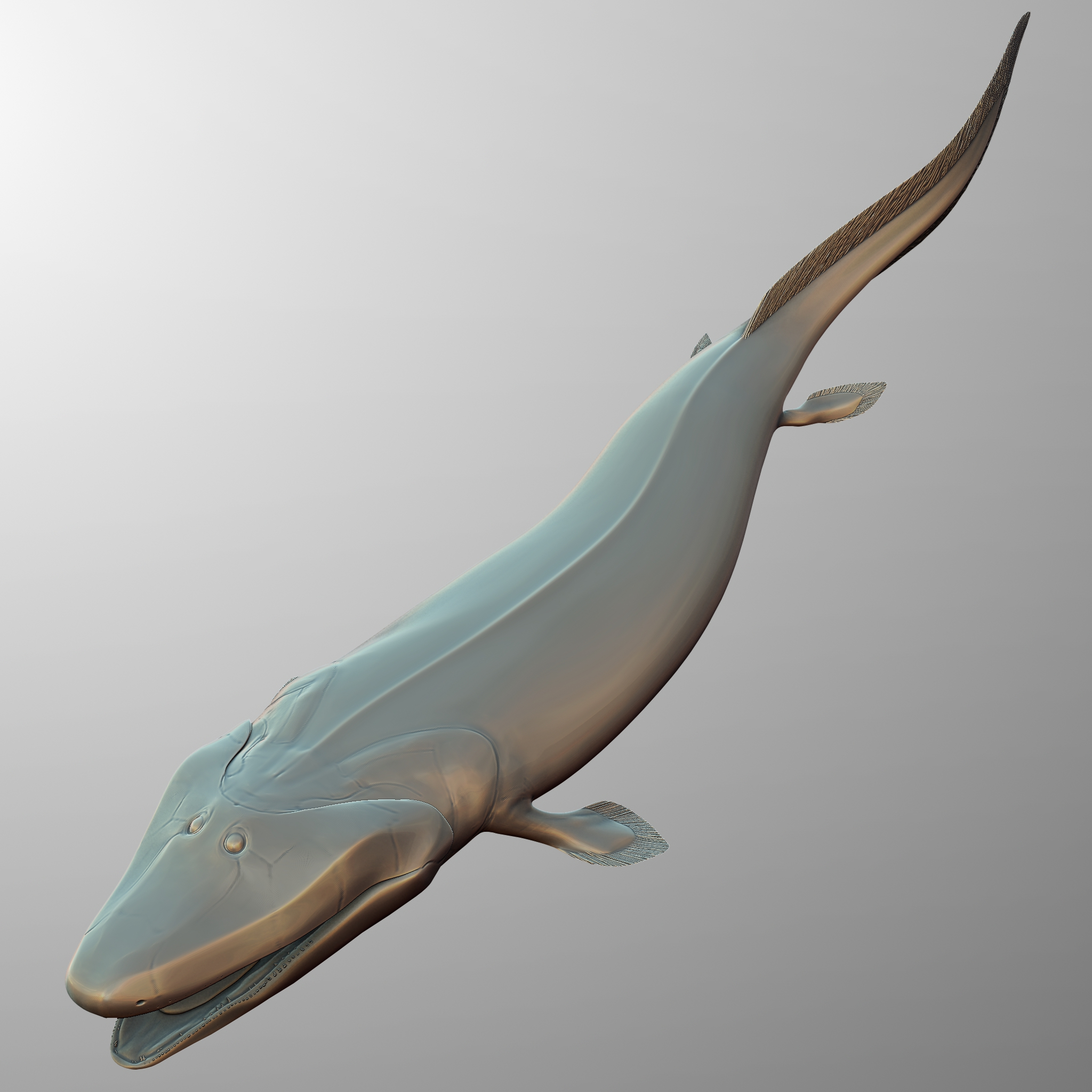 Reconstruction of Tiktaalik roseae. This is a temporary file and will be overwritten with the final render